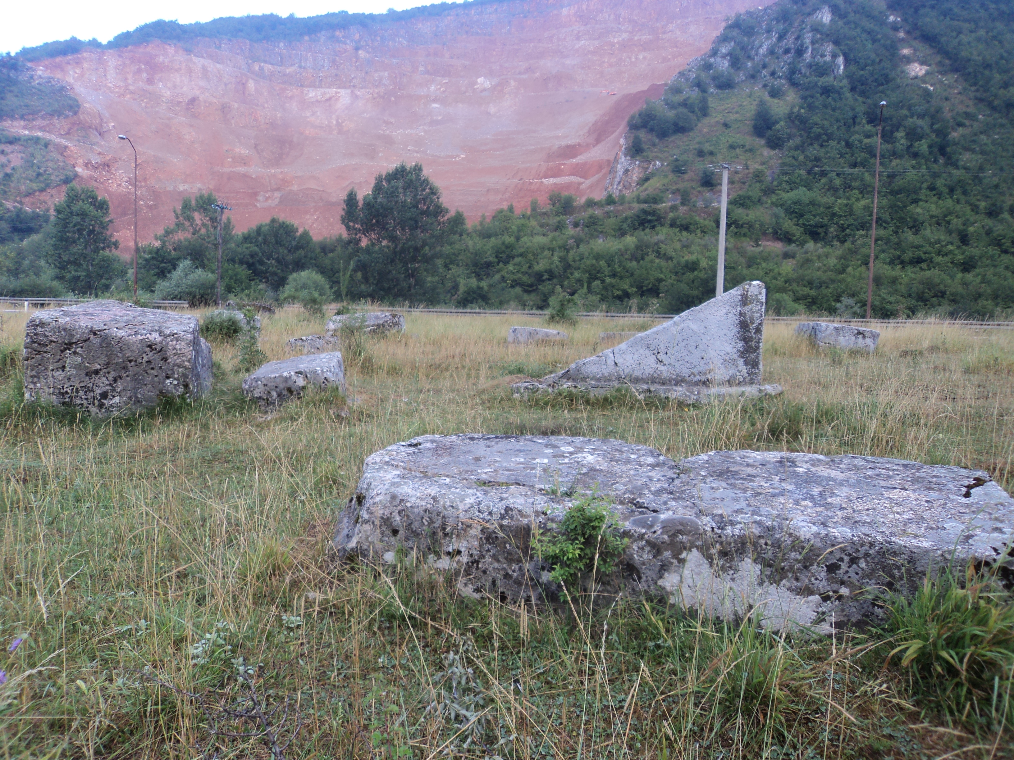 This cultural heritage site is made up from aproximatly 21 stećak and 12 nišan transported to their current location due to nearby quarry, in Krupac, extending its operation to their former location.Two stećak monuments and one nišan monument are separated from the main find and are situated in the nearby settlement of Vojkovići. This image was uploaded as part of Trace of Soul 2015.